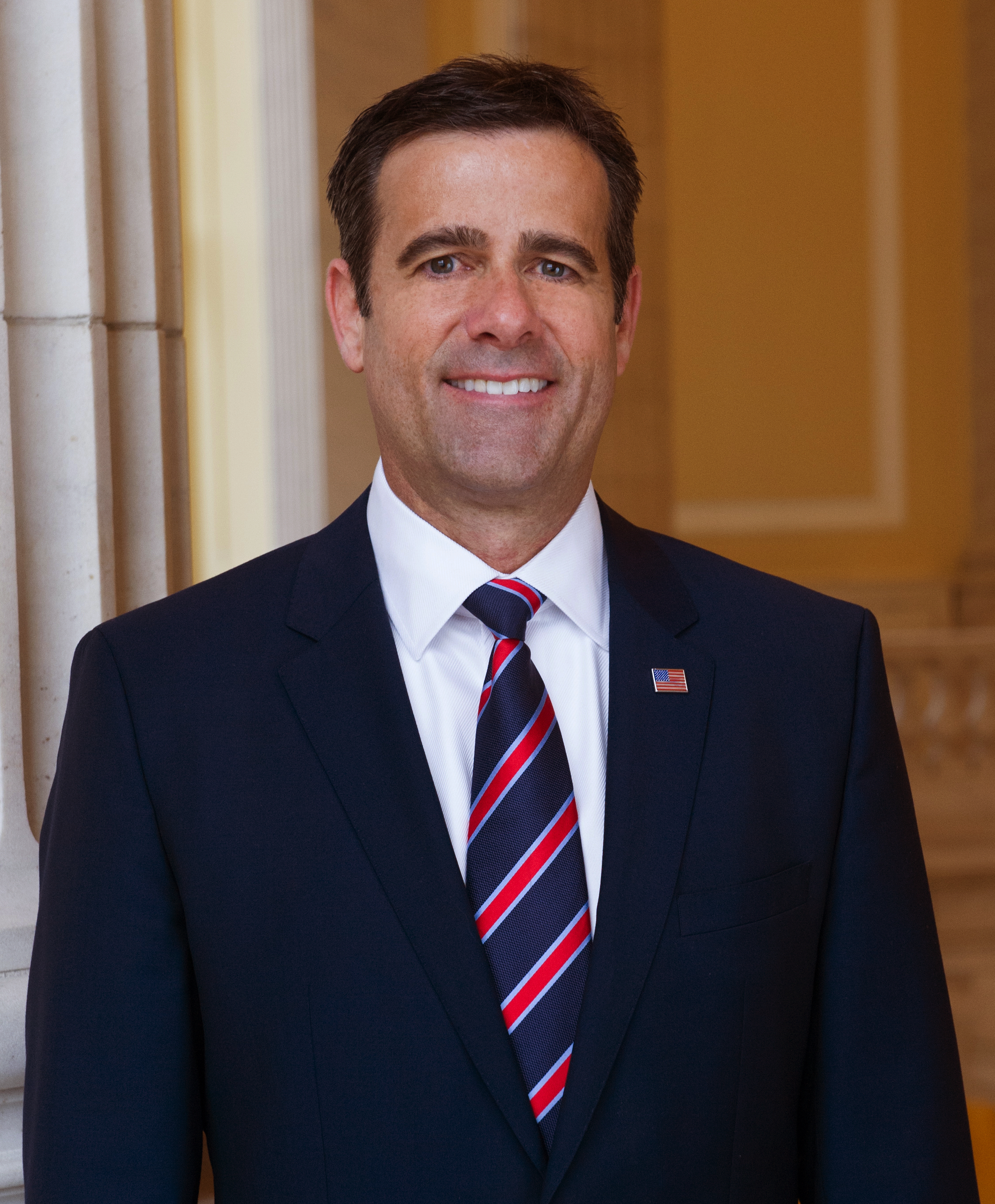 Official Photo for publication